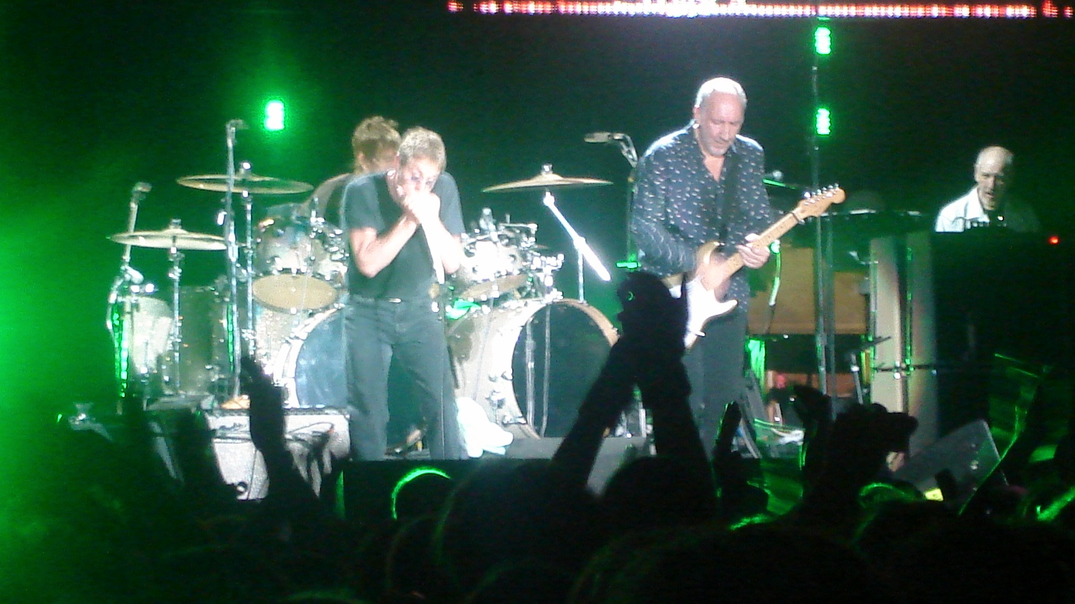 The Who performing at the Rotterdam Ahoy'